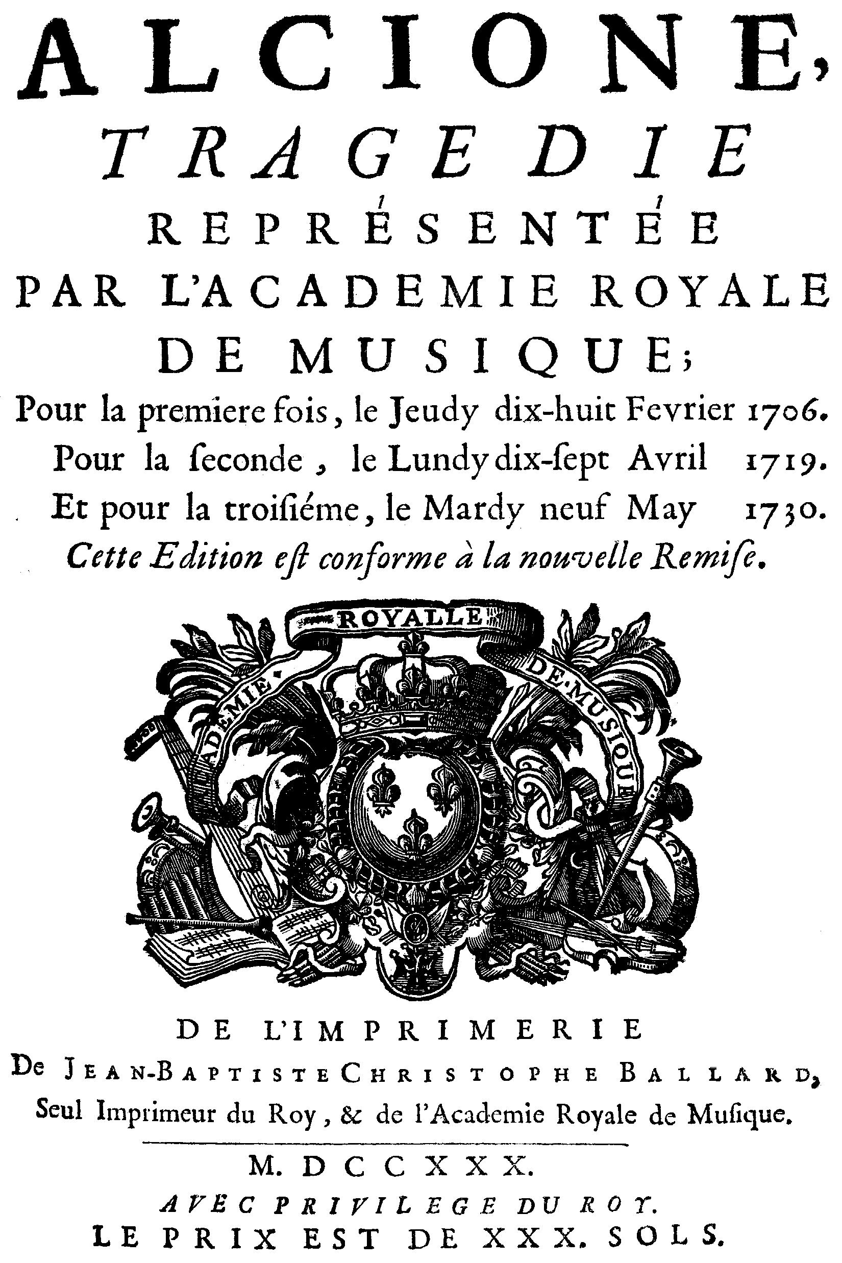 Marin Marais - Alcione - title page of the libretto - Paris 1730